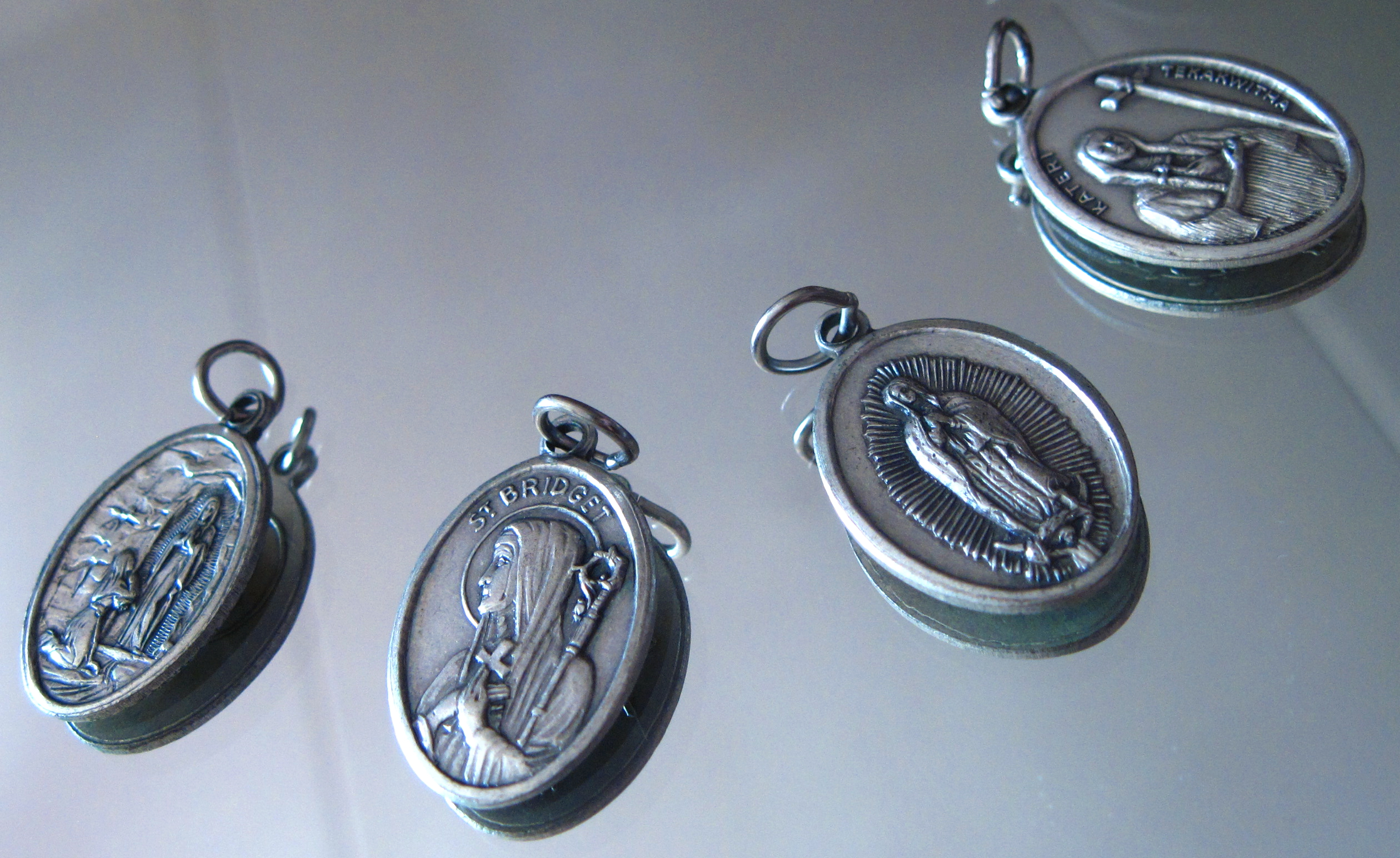 Four Catholic devotional medals. From left to right, they depict Mary Magdalene encountering Jesus at the tomb; St. Bridget; the Virgin of Guadelupe; and Kateri Tekakwitha.